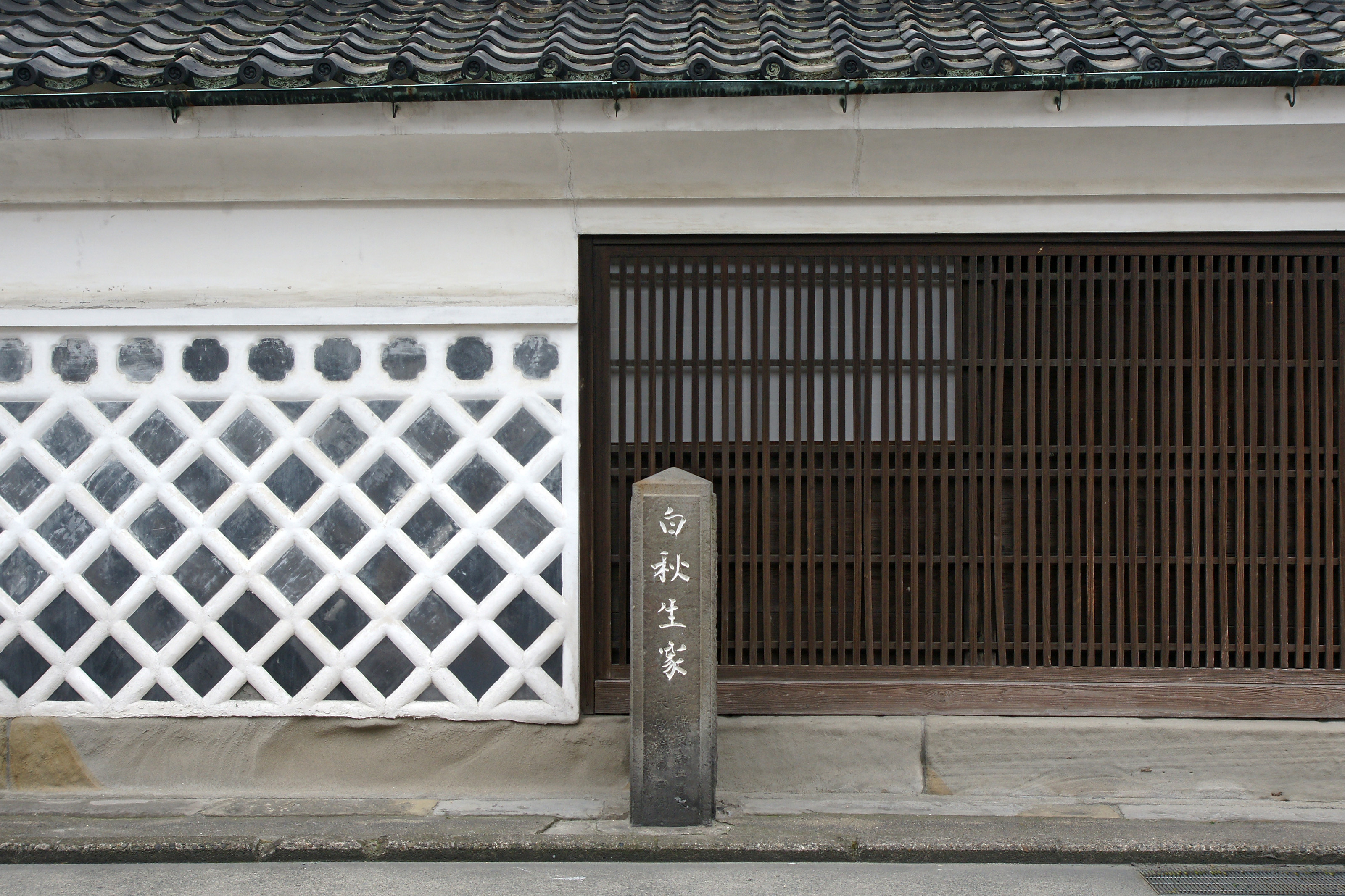 Kitahara Hakushu Memorial Park, Yanagawa, Fukuoka prefecture, Japan